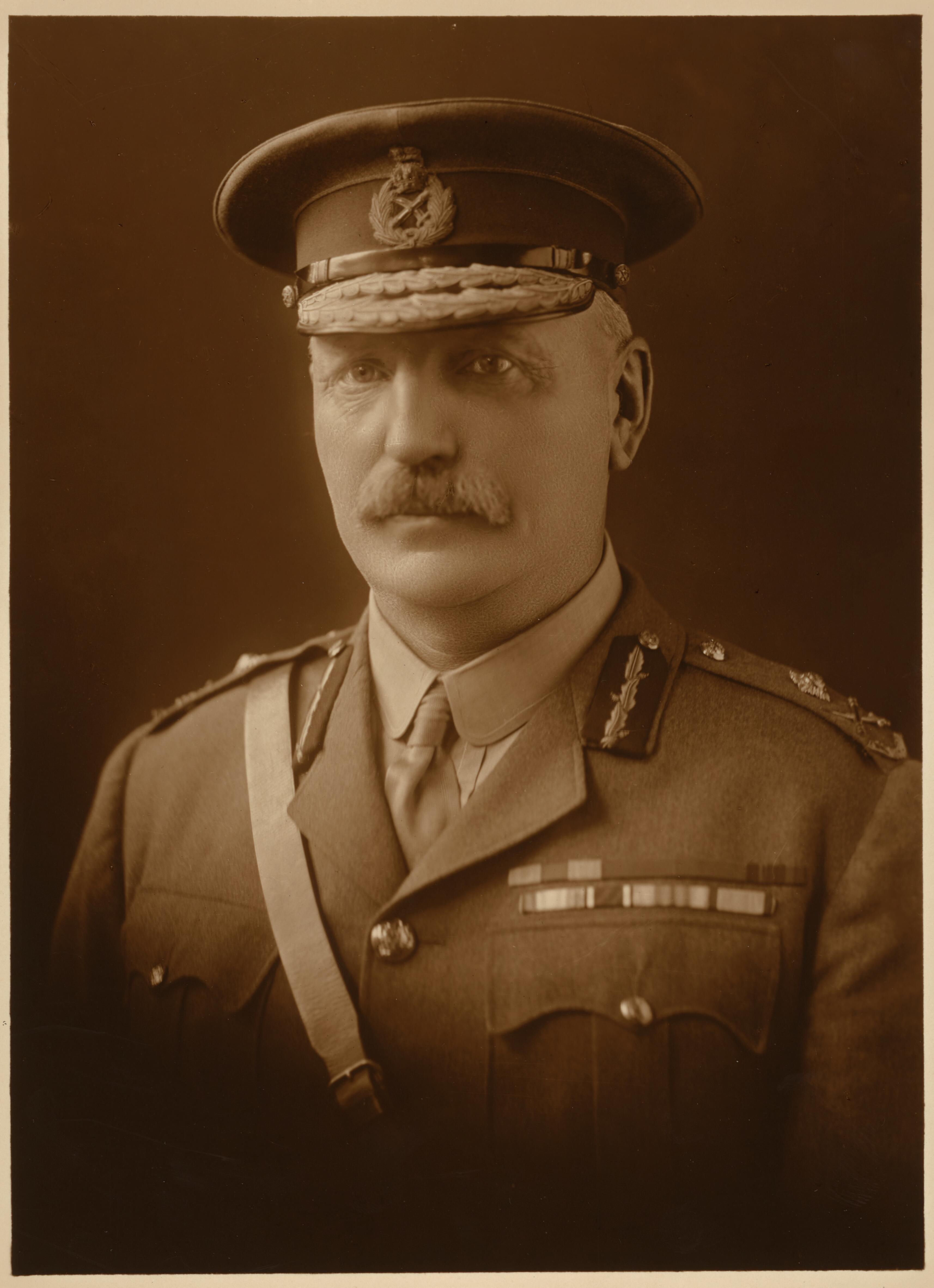 Australian soldier and politician Granville Ryrie in his military uniform